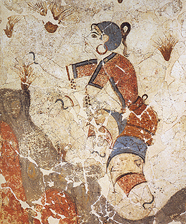 bronze age excavation of the minoan town Akrotiri on the island of Santorini, Greece - Building Xeste 3. Detail of the fresco of the "Saffron Gatherers".